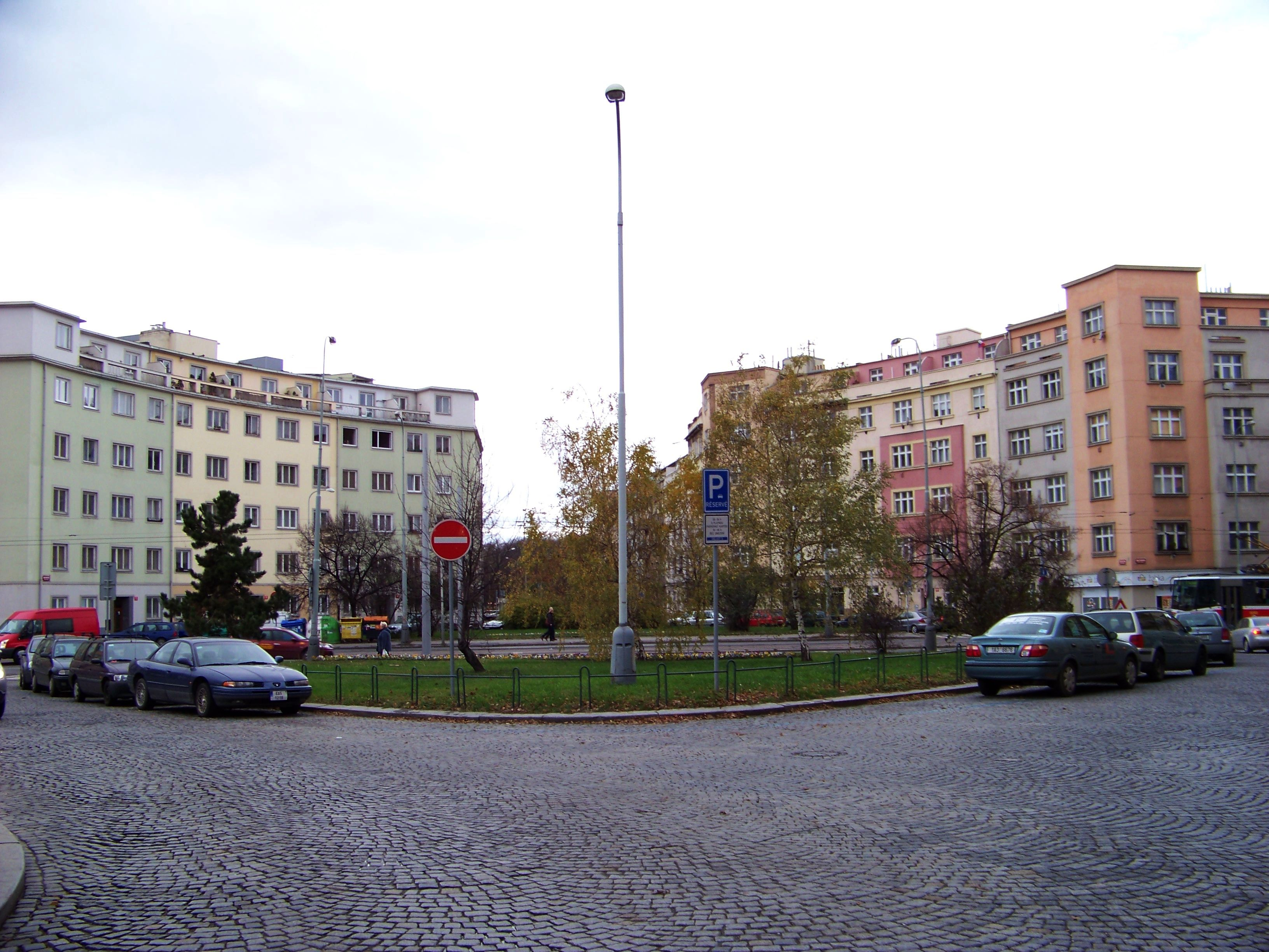 Prague-Žižkov, the Czech Republic. Basilejské náměstí.